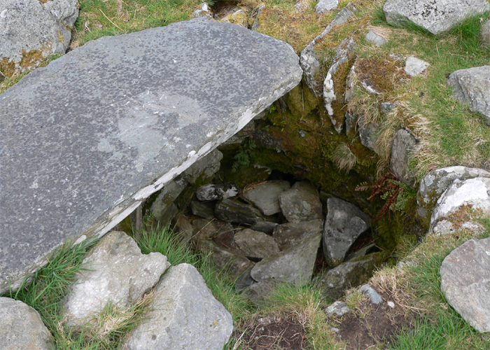 Dunadd Fort, Kilmartin Glen, Scotland - well (on one of the lower levels)